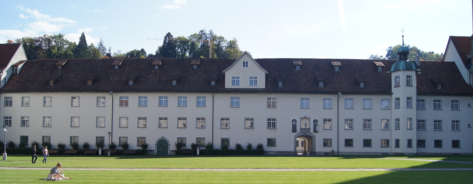 St. Gall, Hofflügel - residence of the bishop